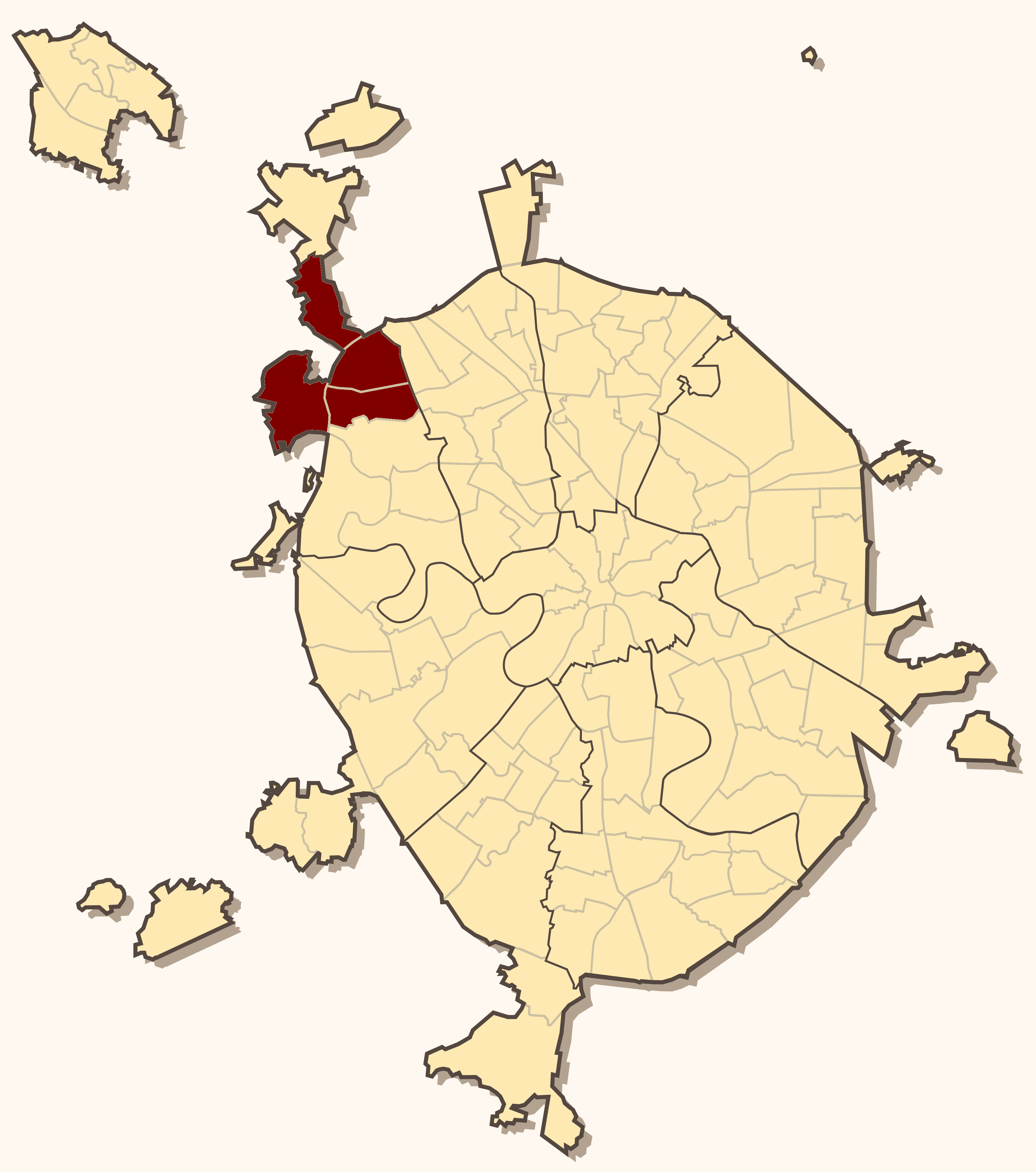 Map of Spasskoe Blagochinie of Moscow